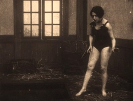 Musidora in a scene from the film Judex